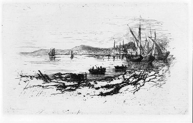 "Bay of Naples, Italy," print of an etching by Eliza Pratt Greaterex. Courtesy of the Library of Congress Digital Collection.